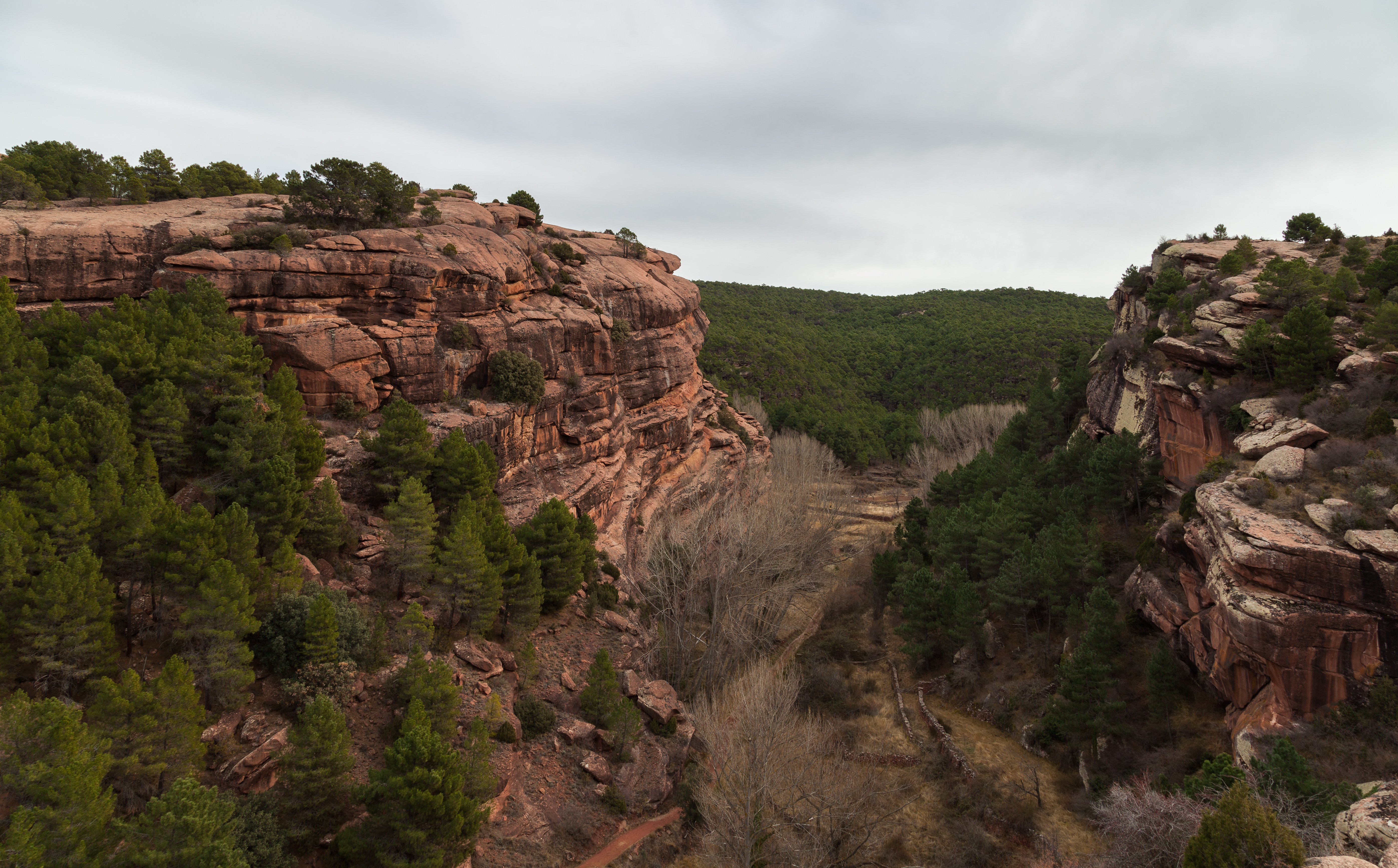 Peña la Cruz, Pinares de Rodeno, Albarracín, Teruel, Spain